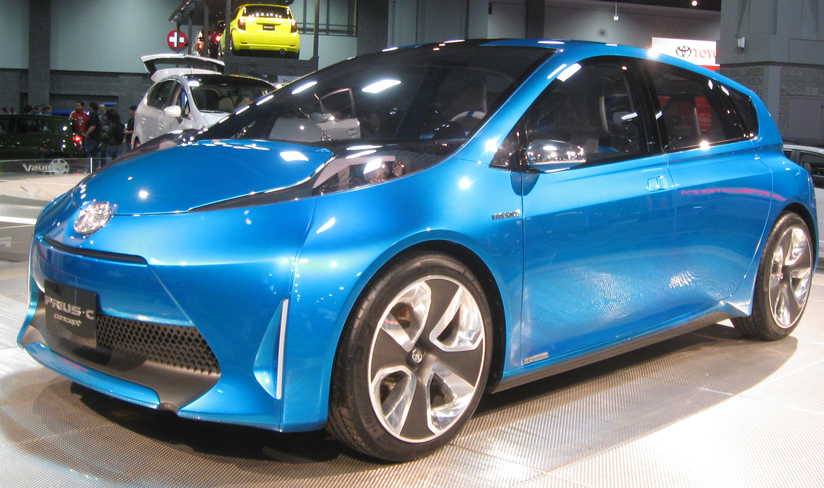 Toyota Prius C concept photographed at the 2011 Washington (D.C.) Auto Show.